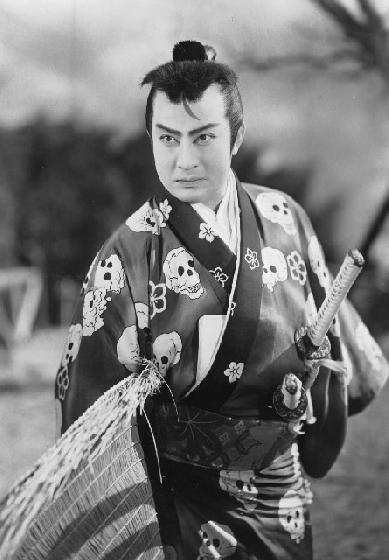 Utaemon Ichikawa in 1938 Japanese movie Takaranoyama ni hairu Taikutsuotoko (The Idle Vassal:Enter the pile of treasure).